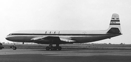 DH.106 Comet 1 G-ALYX of BOAC at Heathrow